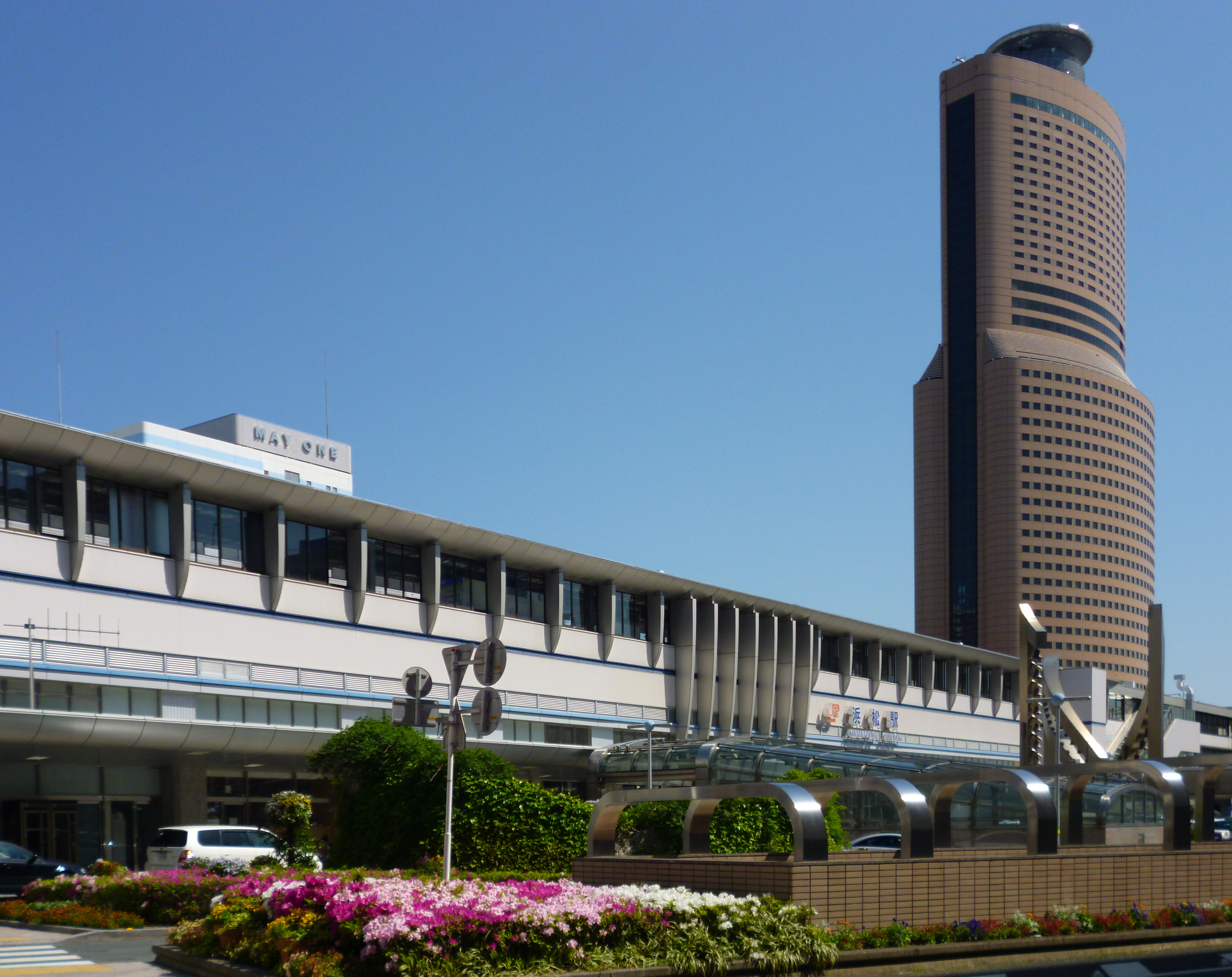 The south gate of Hamamatsu Station and Act Tower in Hamamatsu, Shizuoka , Japan.